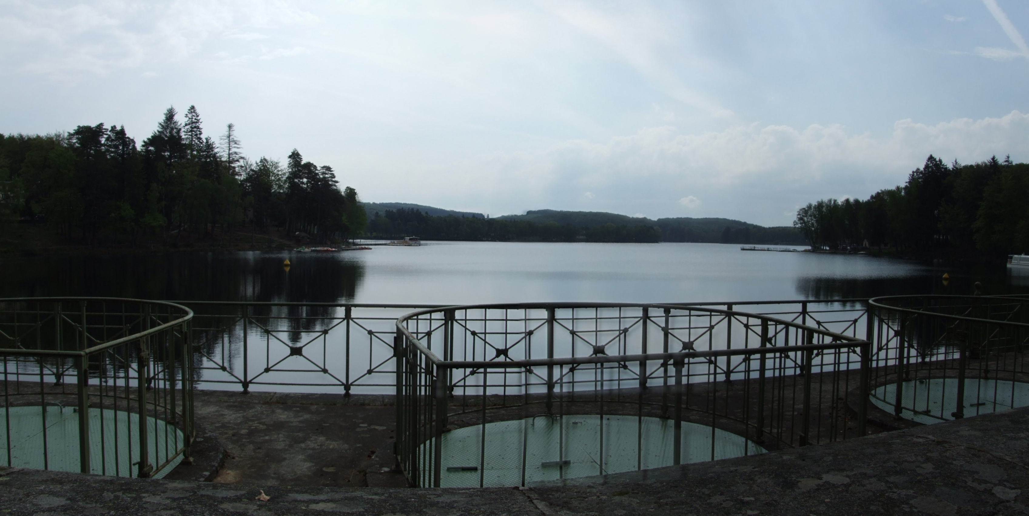 Setton lake, Burgundy, FRANCE